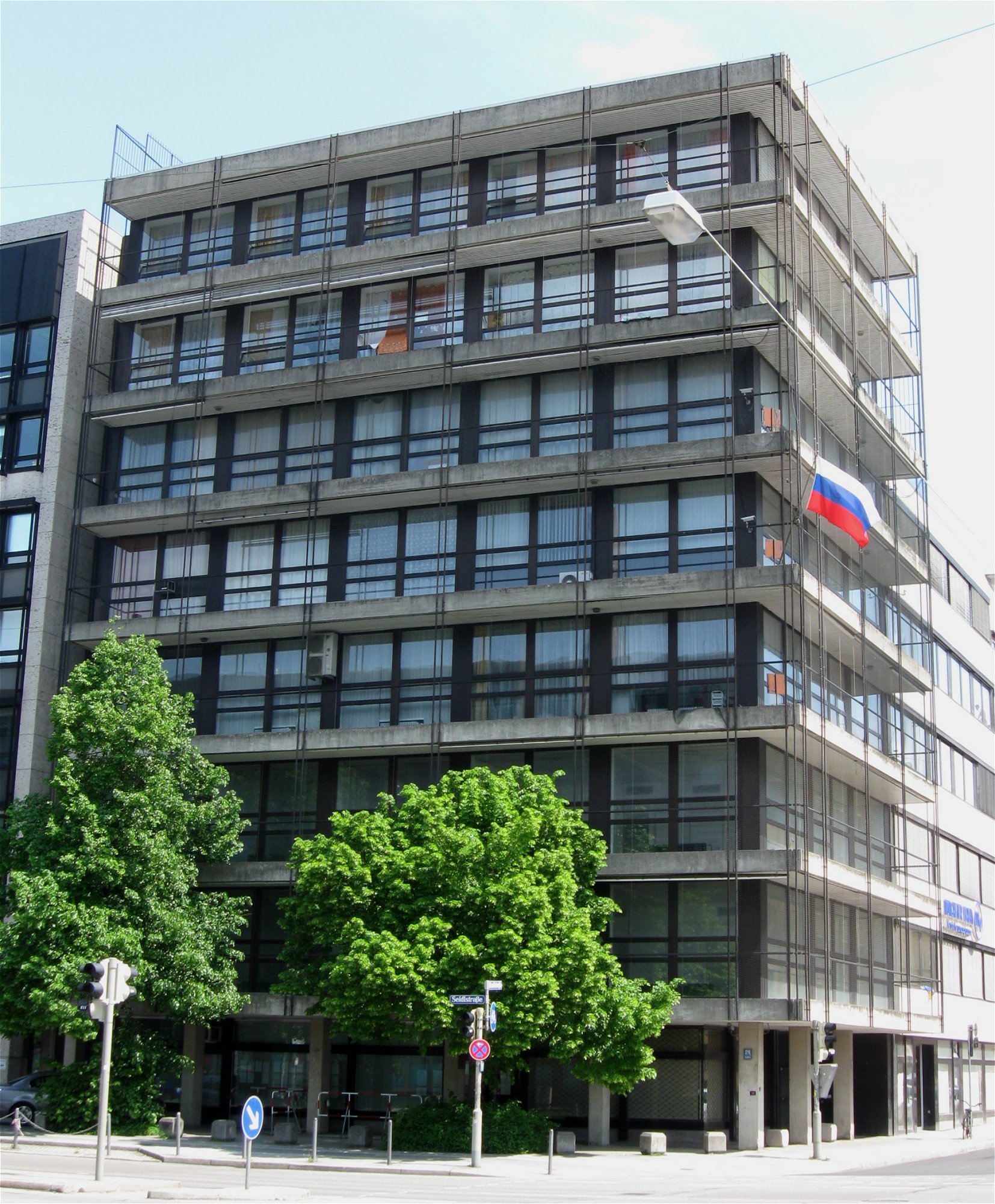 Russian Consulate General in Munich, Seidlstr. 28; now residing Maria-Theresia-Str. 17